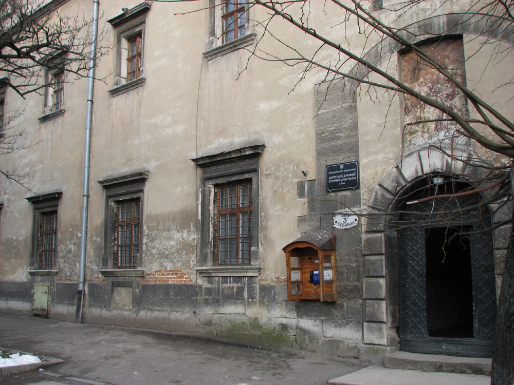 Bernardine church and monastery in Lviv